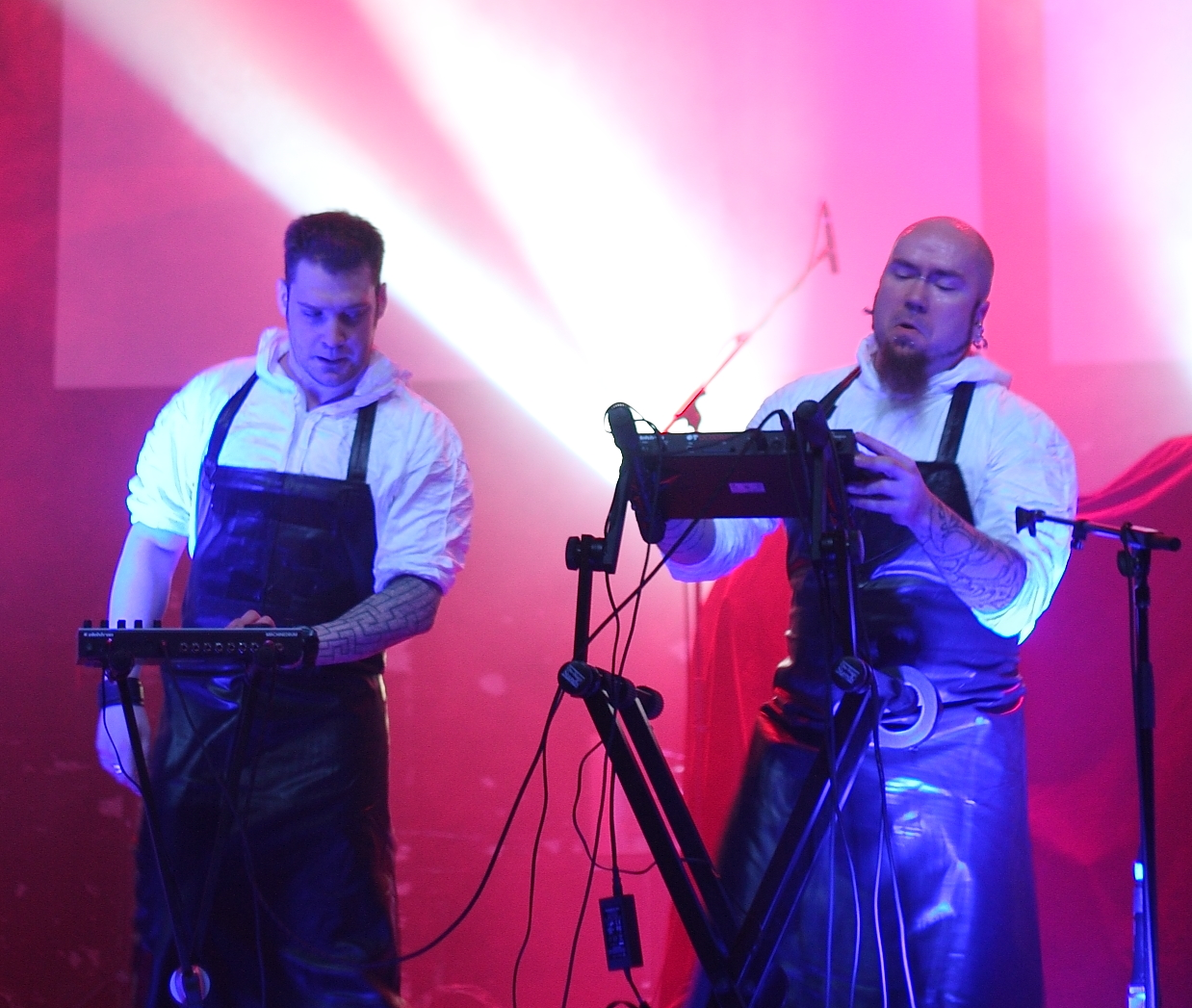 iVardensphere